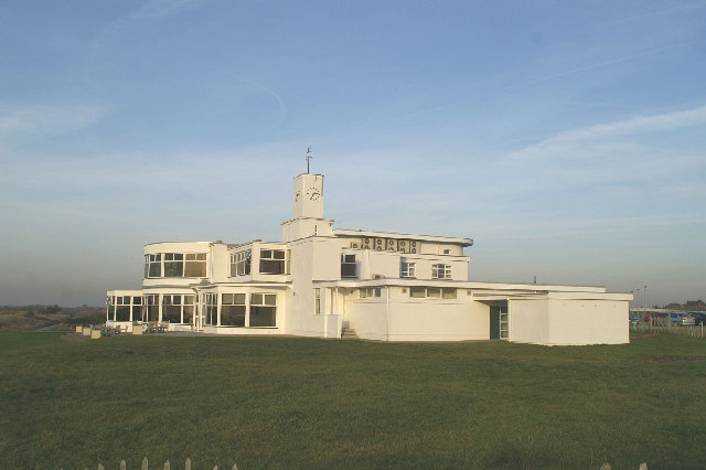 Royal Birkdale Golf Club.